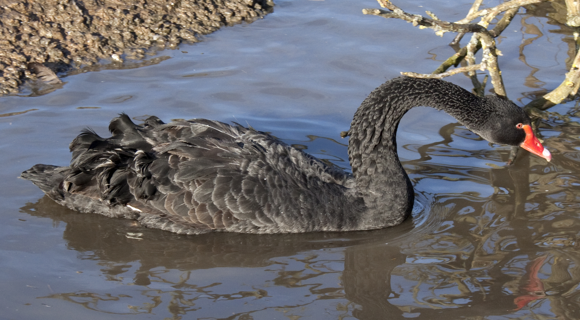 Black Swan 2